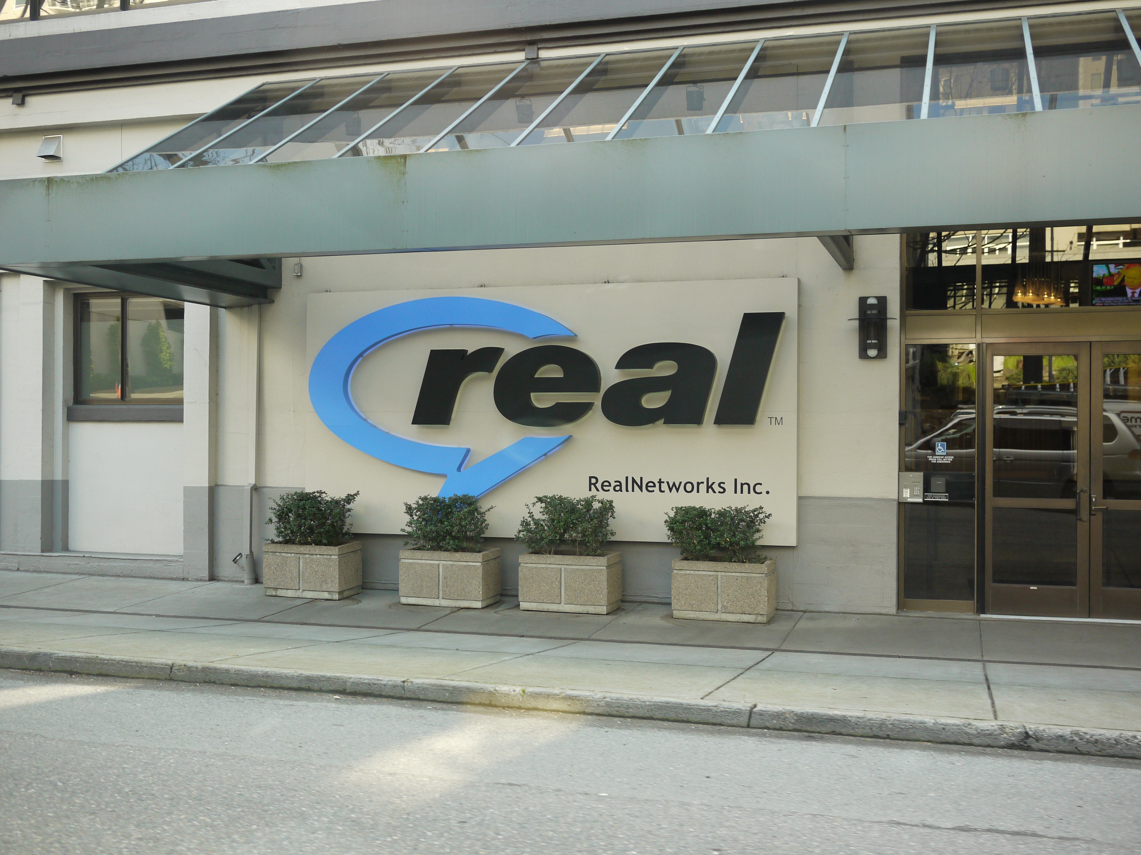 RealNetworks corporate headquarters